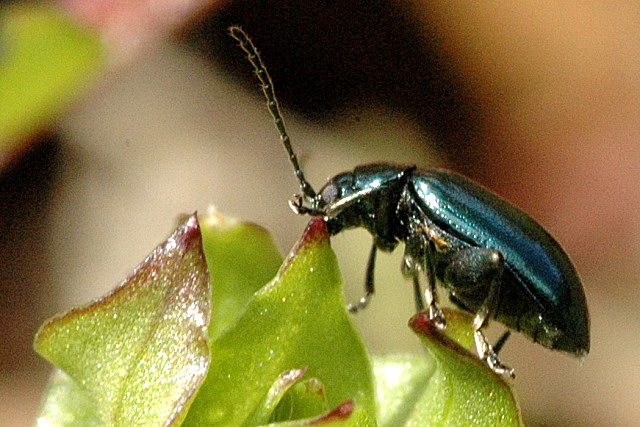 Picture taken in Commanster, Belgian High Ardennes . Species: Altica palustris